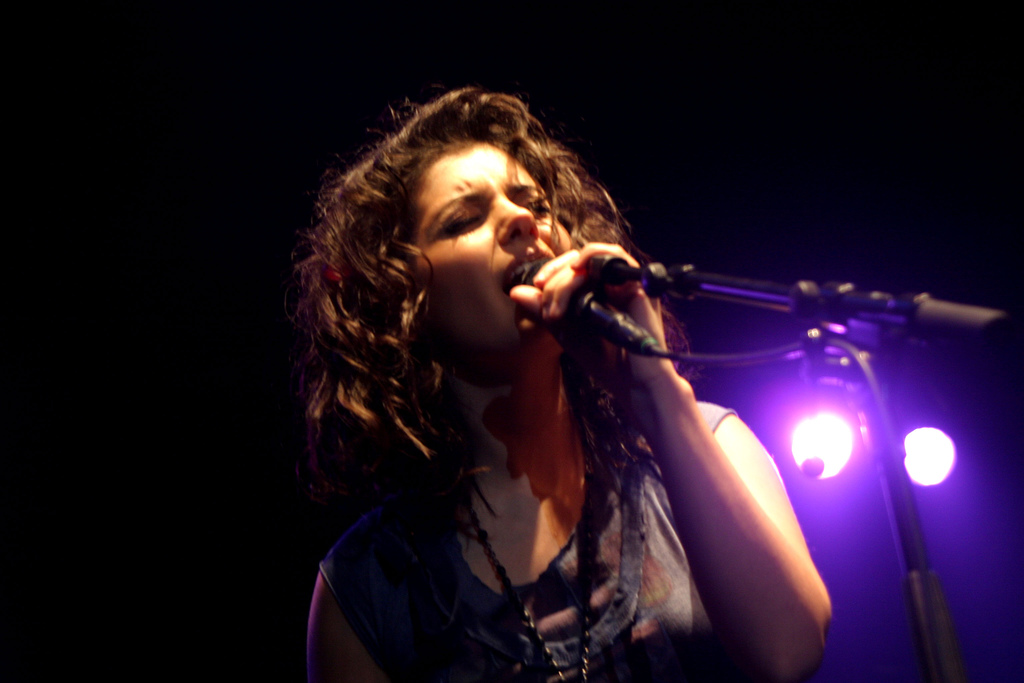 Photo of Katie Melua at the North Sea Jazz Festival